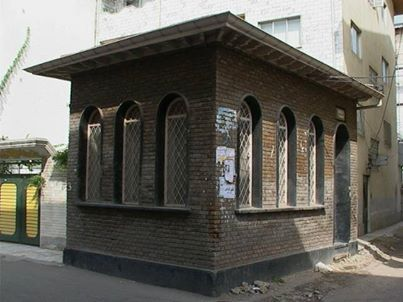 hiva-network